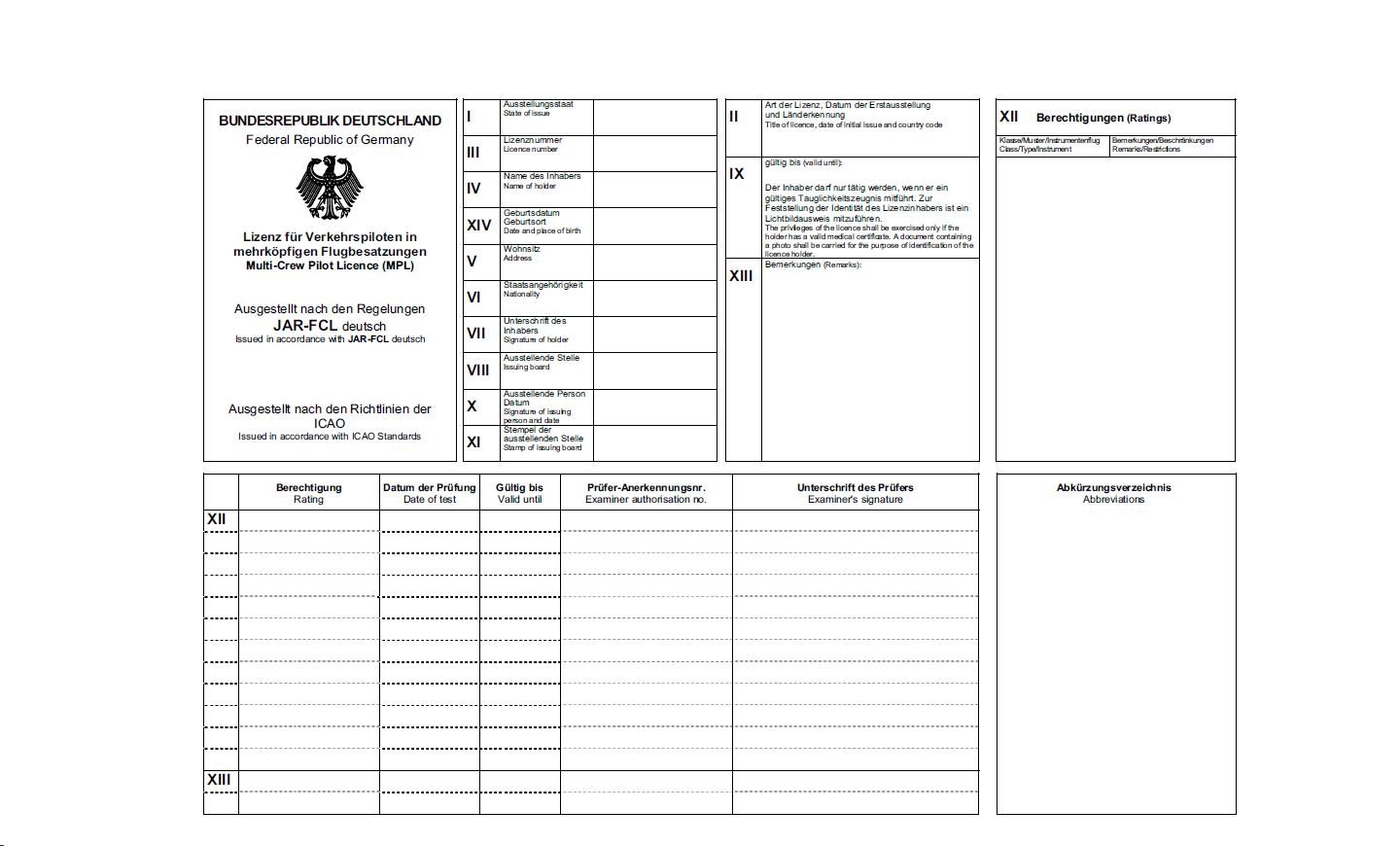 MPL(A) Licence JAR-FCL German